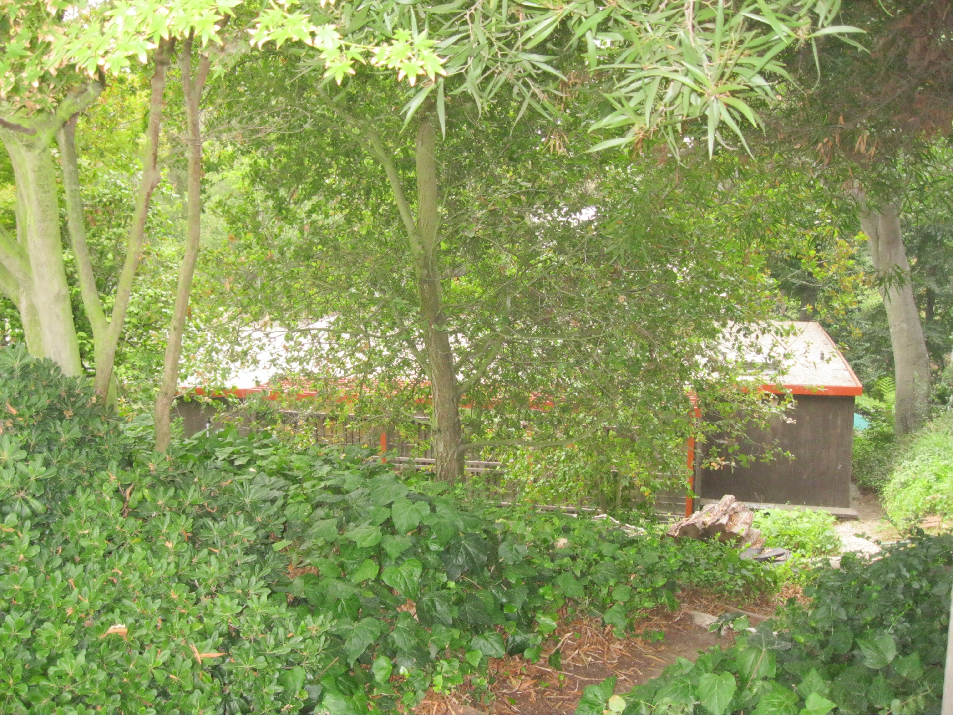 John Norton House in Pasadena, CA, listed on the National Register of Historic Places.